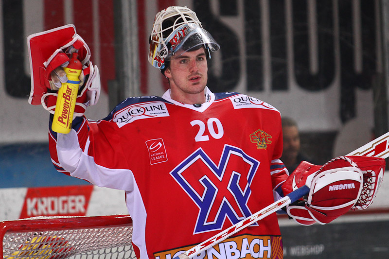 Reto Berra, Swiss Icehockeyplayer